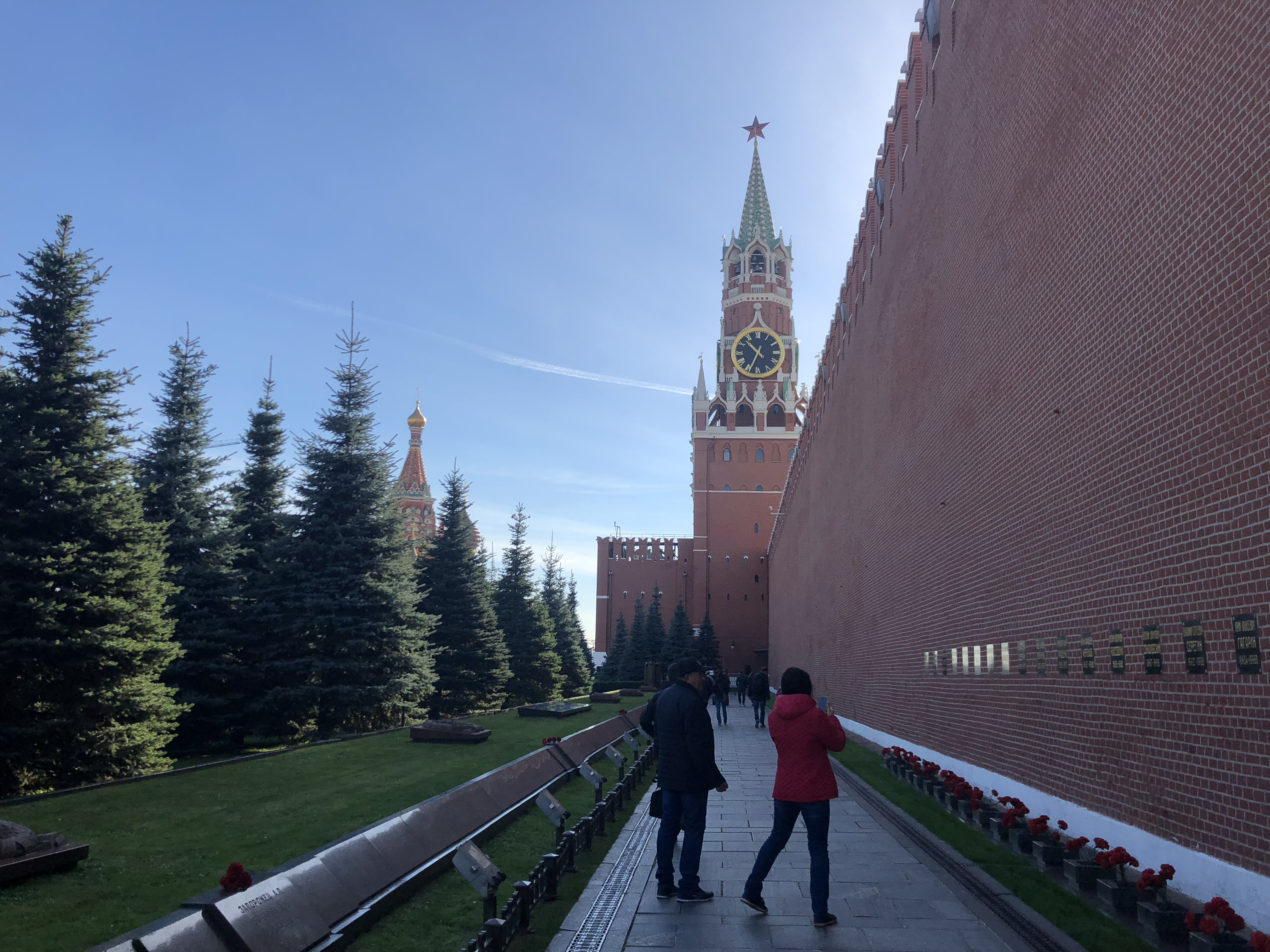 The Kremlin Necropolis with a view of Main gallery: Spasskaya Tower.